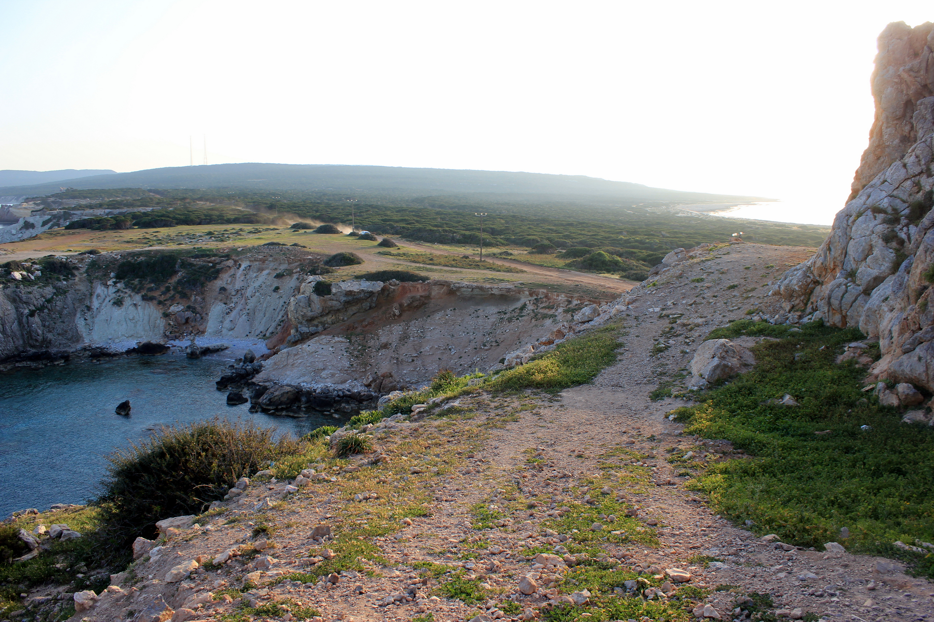 At Cape Apostolos Andreas on Cyprus.